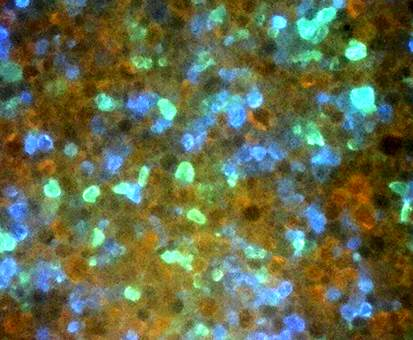 Luminescent foil, detailed view from File:Electrolumfurp.jpg. Size of gleaming particles 0.2-0.5mm